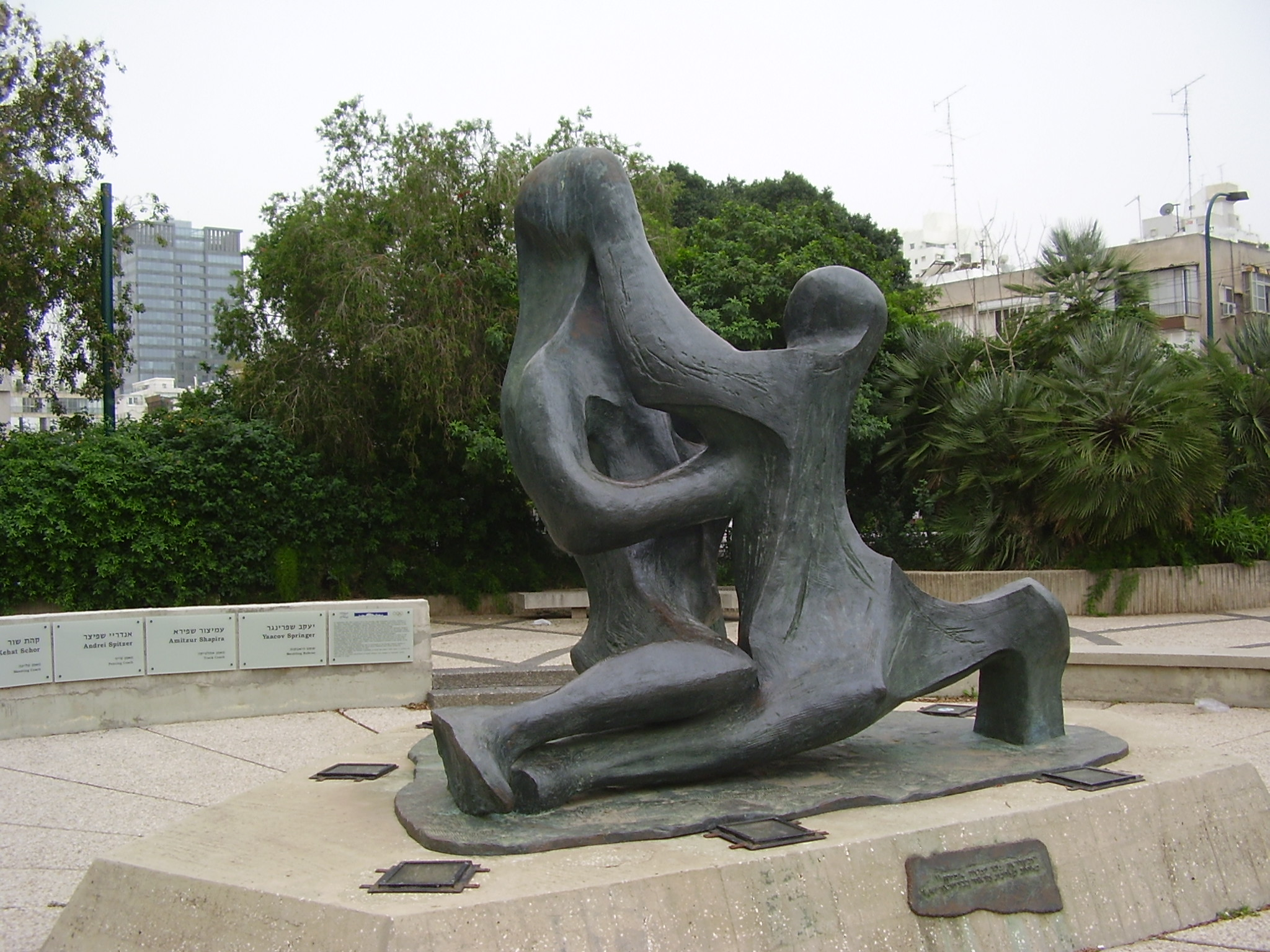 Munich Massacre memorial in Tel Aviv